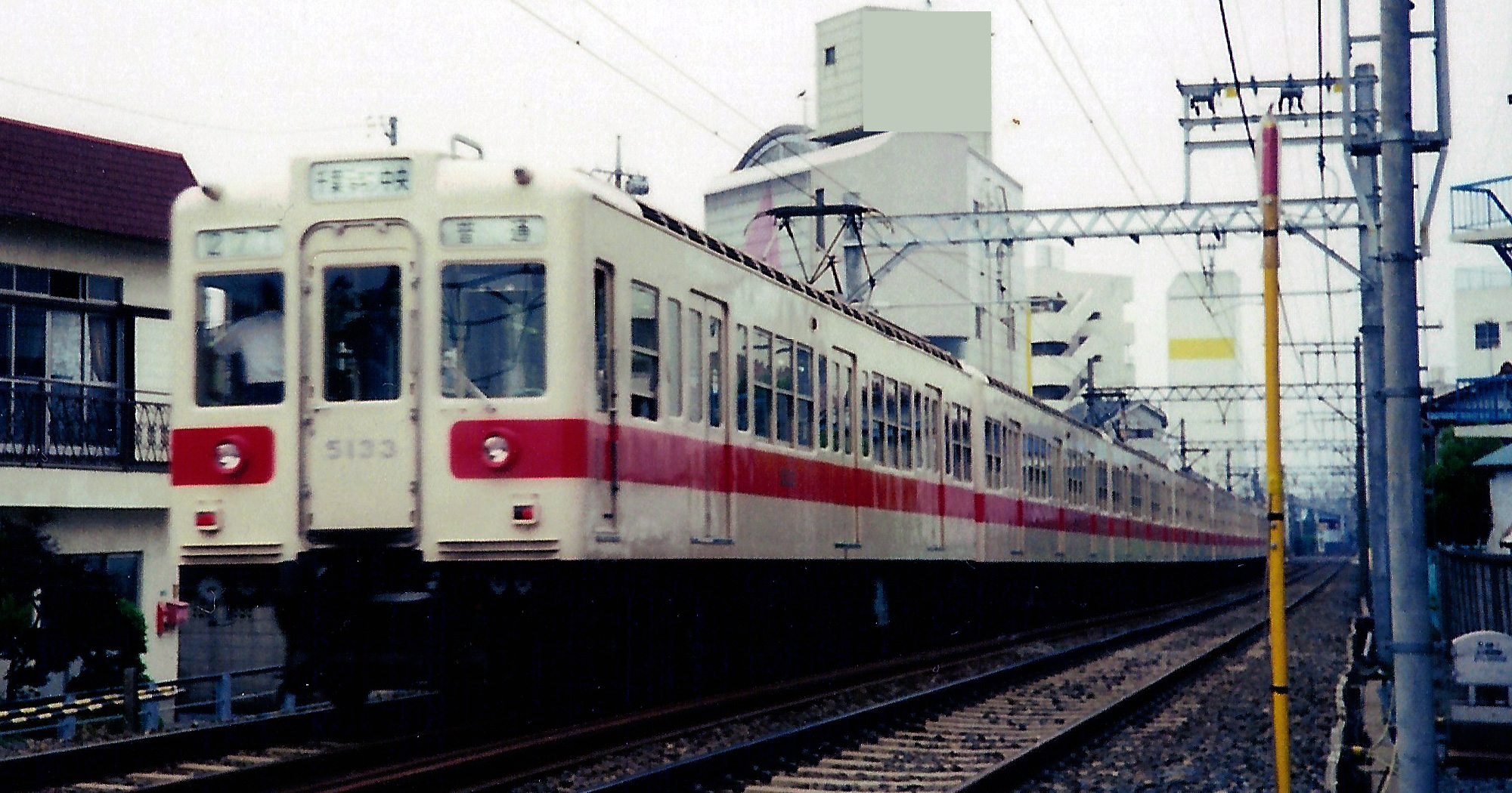 Tokyo Metropolitan Bureau of Transportation (Toei) 5000 series EMU on the Asakusa Line